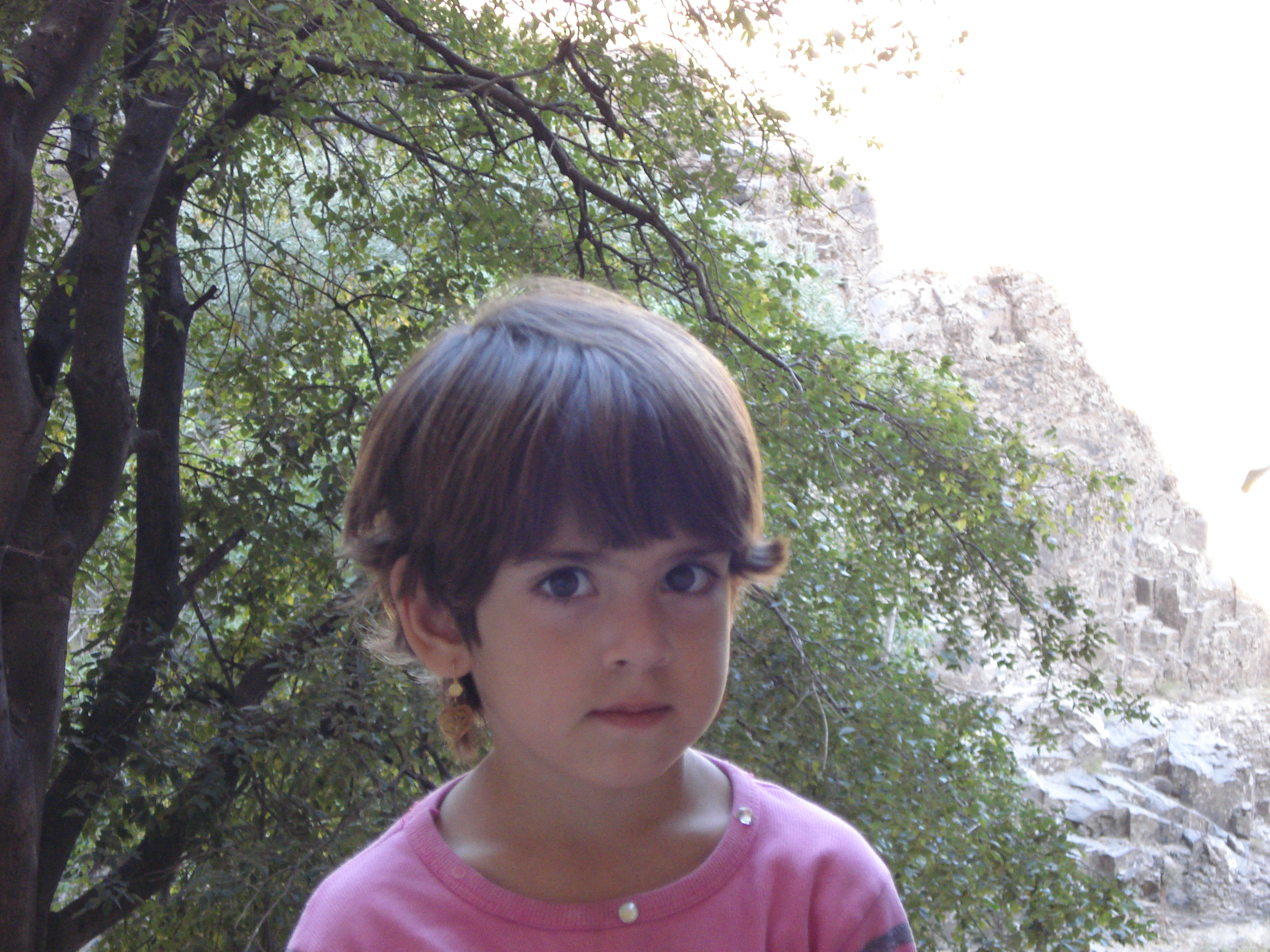 Girl at yazdgerd 3Th last castle in Zibad, Gonabad County, Iran